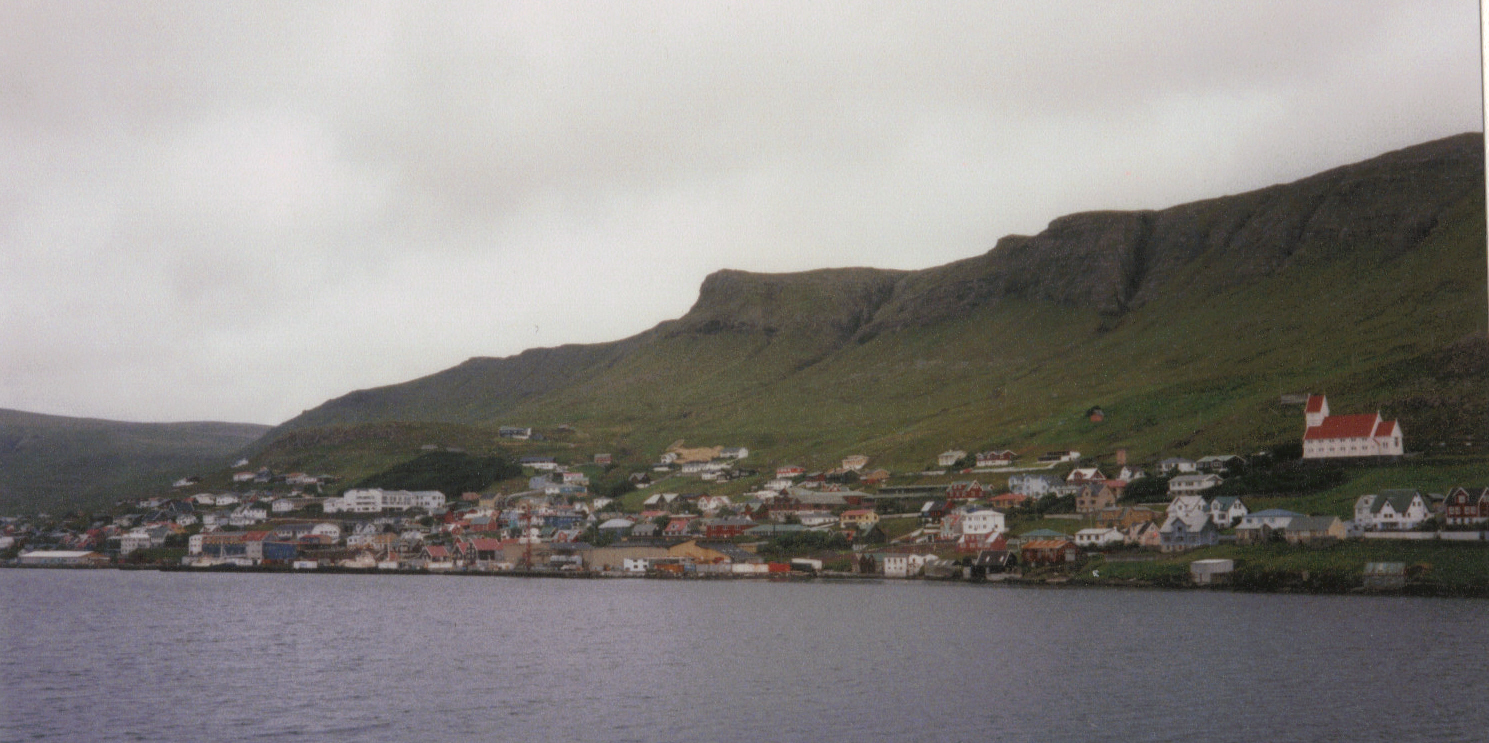 General view of Tvøroyri